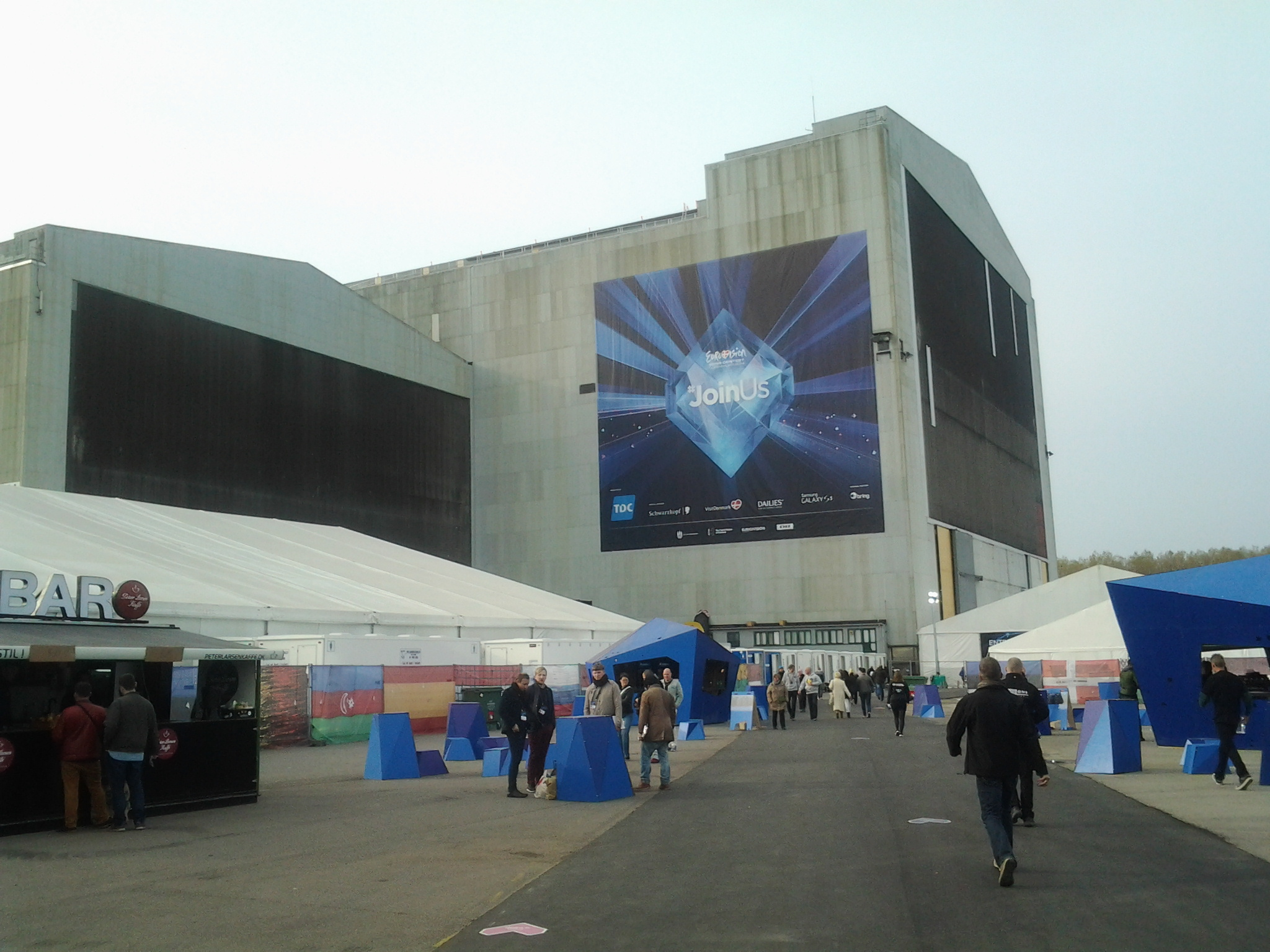 B&W Hallerne in Copenhagen before the first semi final of Eurovision Song Contest 2014.